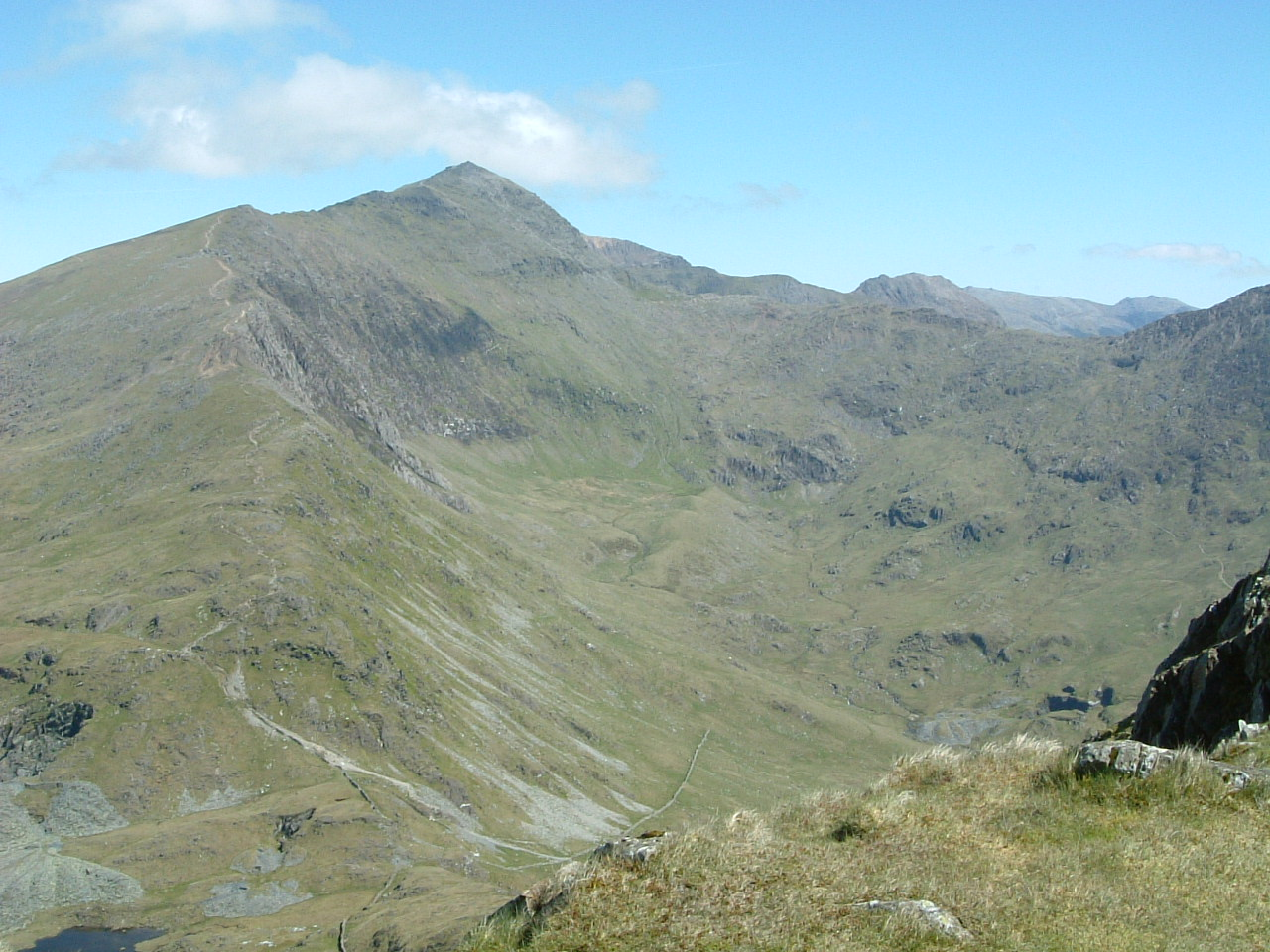 View to Snowdon from Yr Aran